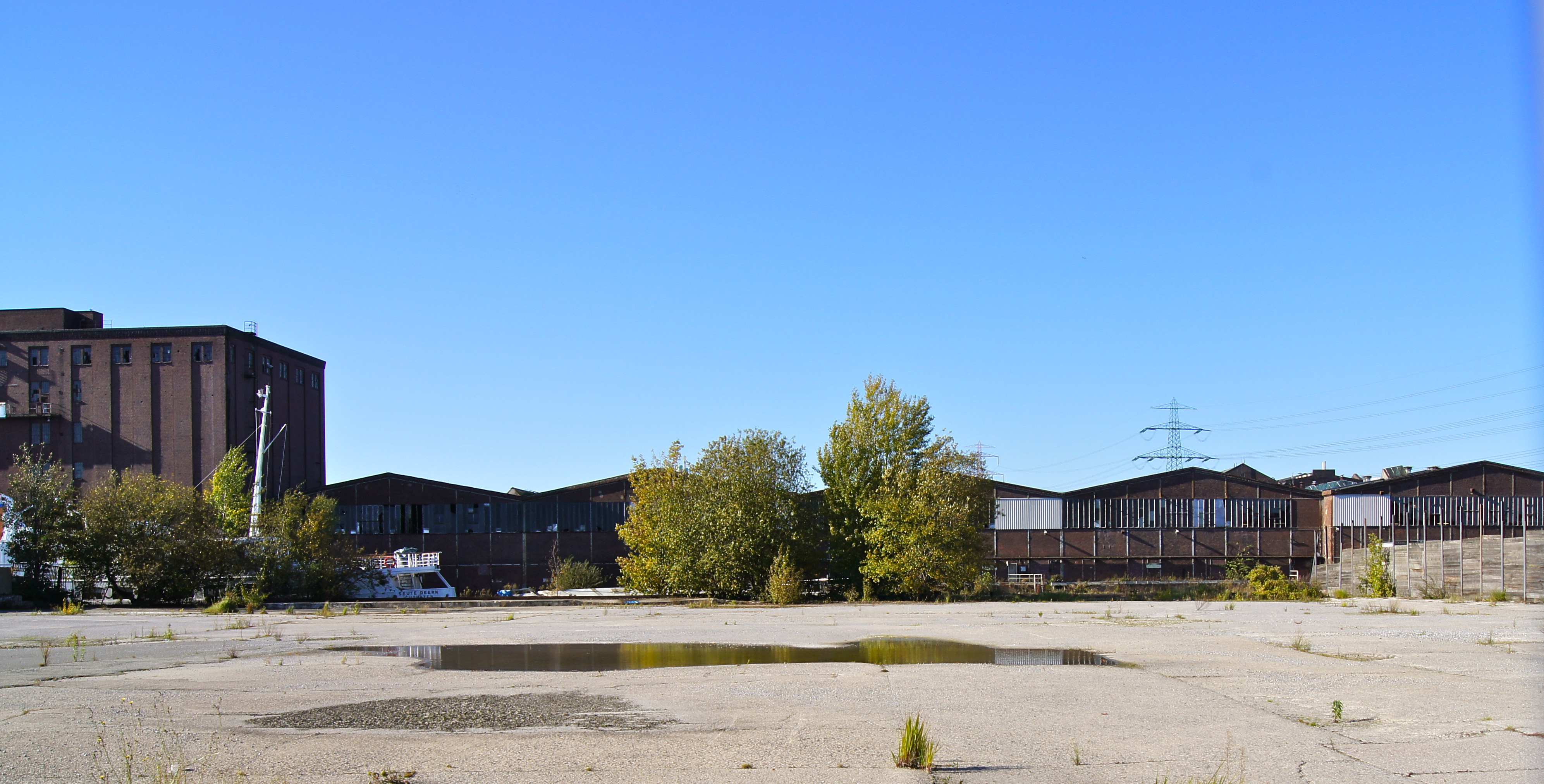 Hamburg (Harburg), Germany: Quai at the Ziegelwiesenkanal